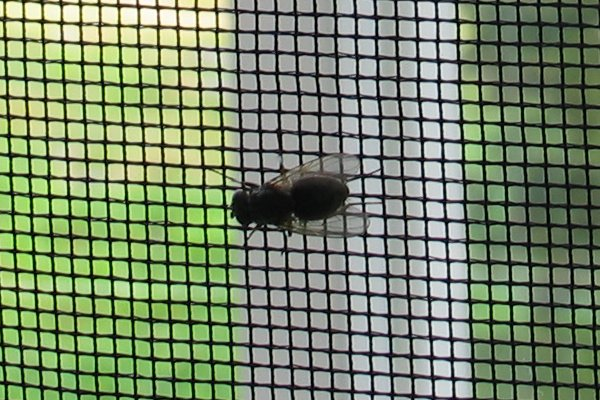 A fly on a mosquito net, photo taken in Sweden